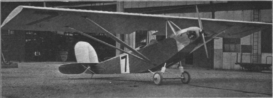 Three-quarter view of Supermarine Sparrow aircraft